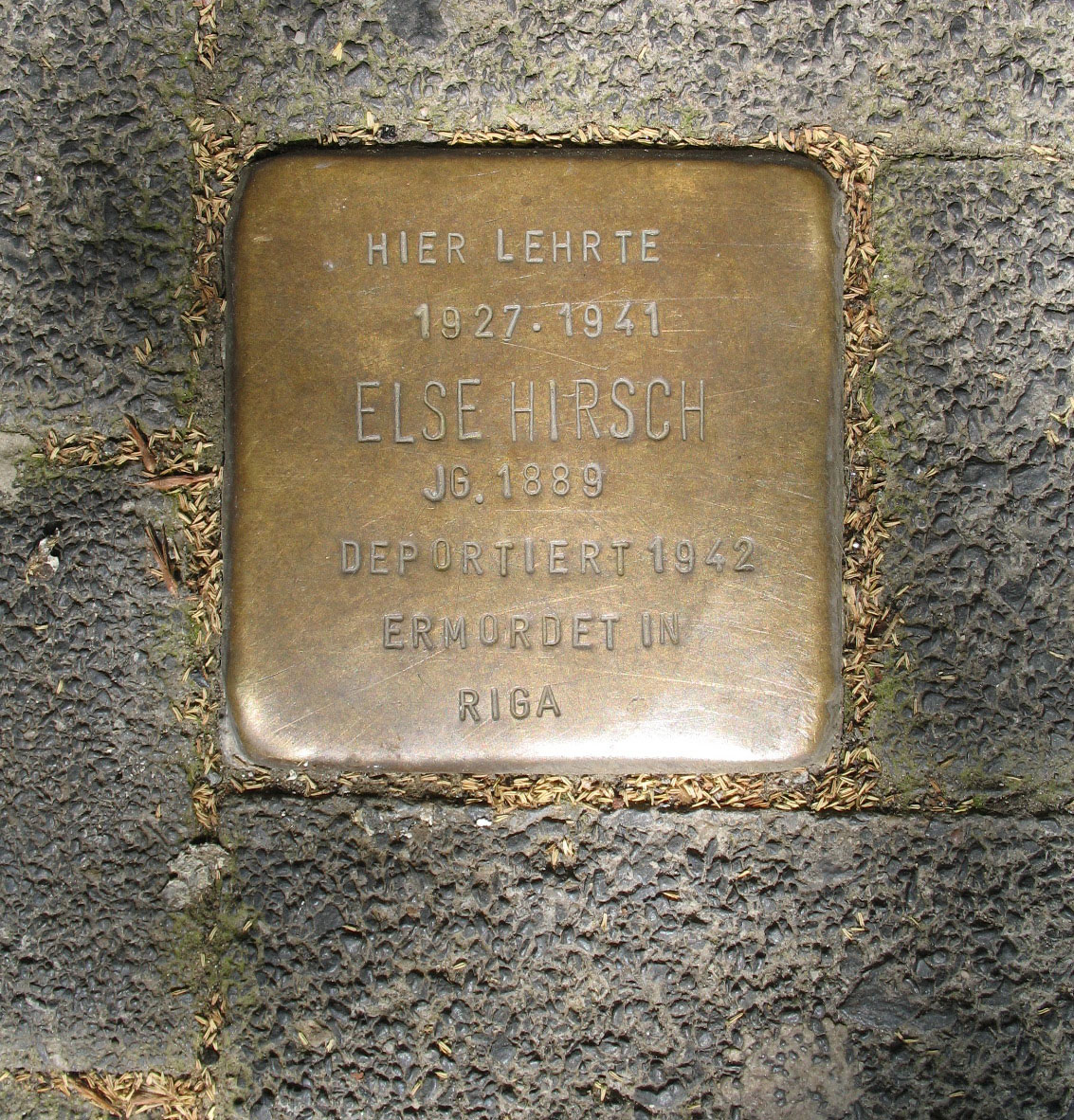 Stolperstein (a cobblestone-sized commemorative plaque) for Else Hirsch, a Jewish teacher, who organized 10 children's transports out of Nazi Germany. She was arrested by the Nazis and deported to the Riga ghetto in 1942, where she perished. The plaque is located at Huestraße 28 in downtown Bochum, Germany and reads "Else Hirsch, b. 1889, taught here 1927-1941. Deported 1942. Murdered in Riga."